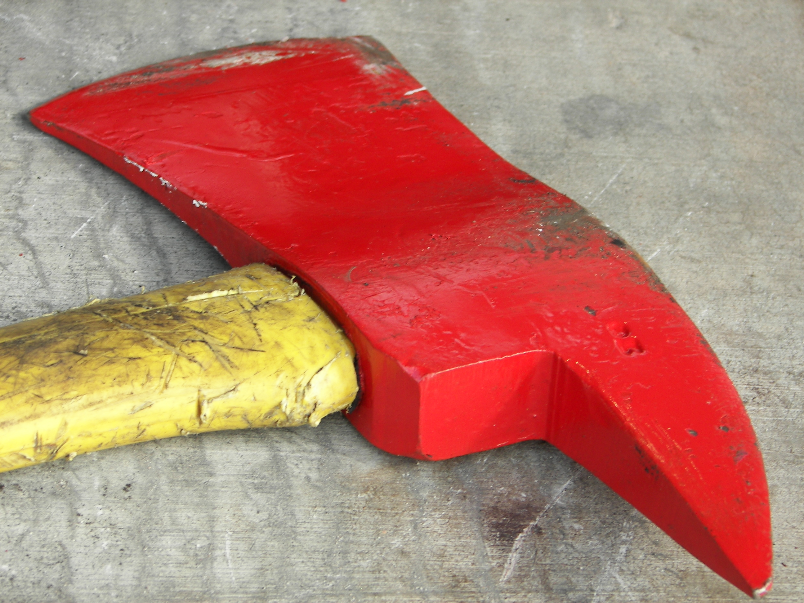 A fire axe.